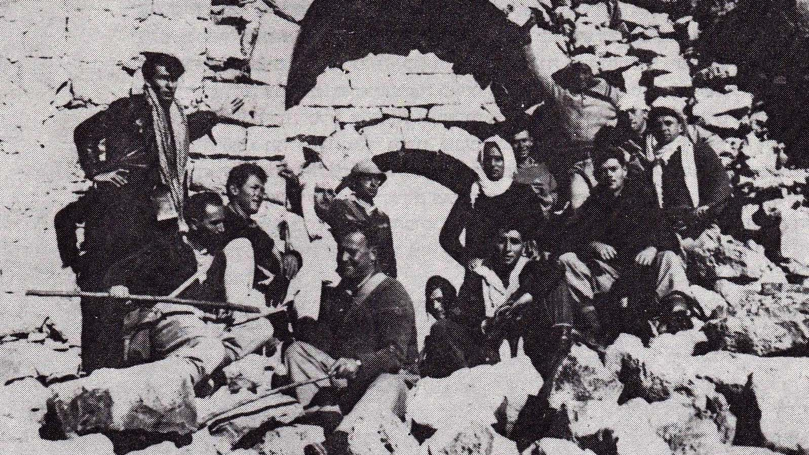 Reconesance members of Palmach and Ha'Noar Ha'Oved during the First Cross Negev Journey, 1945